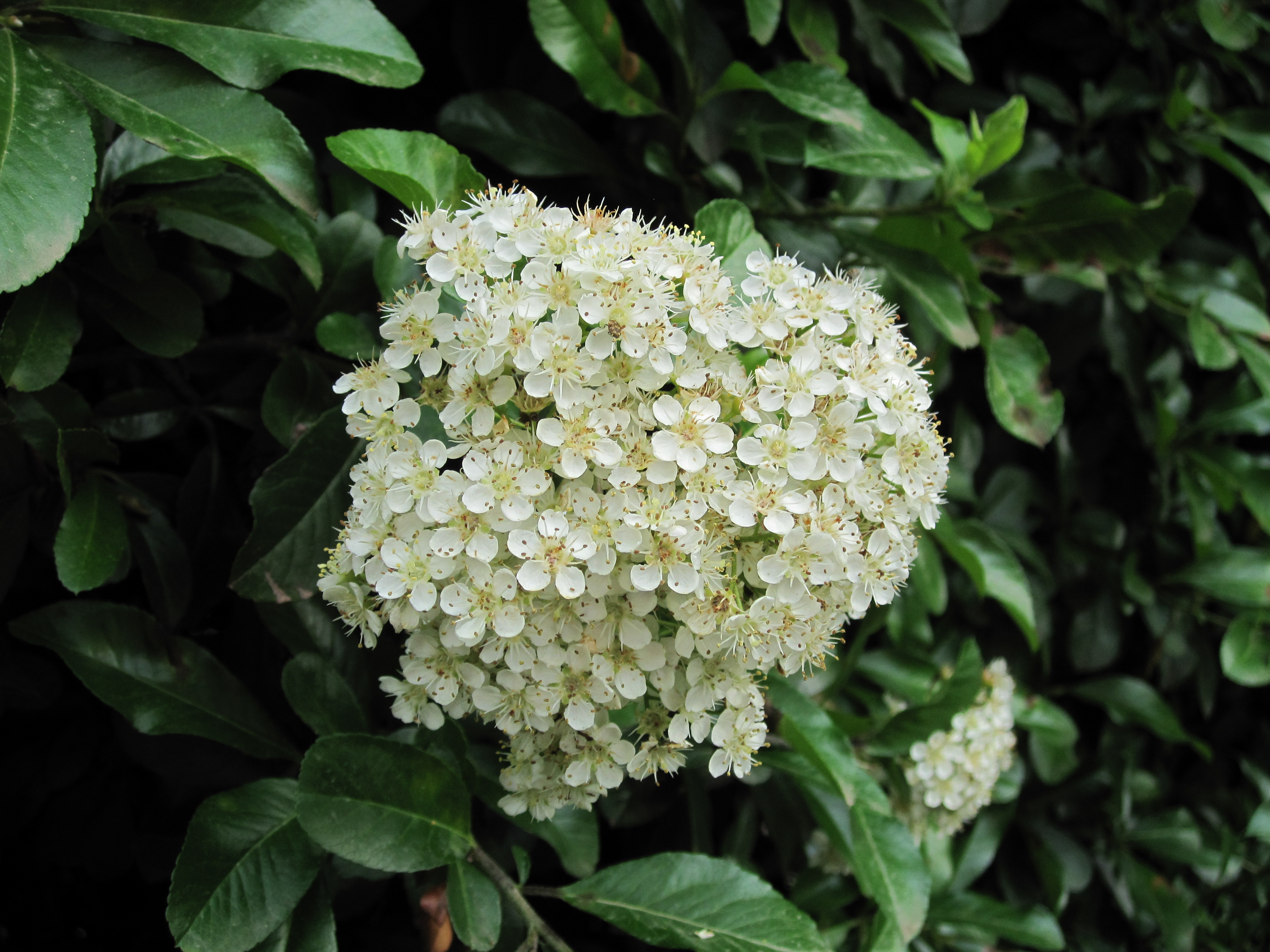 Pyracantha flowers